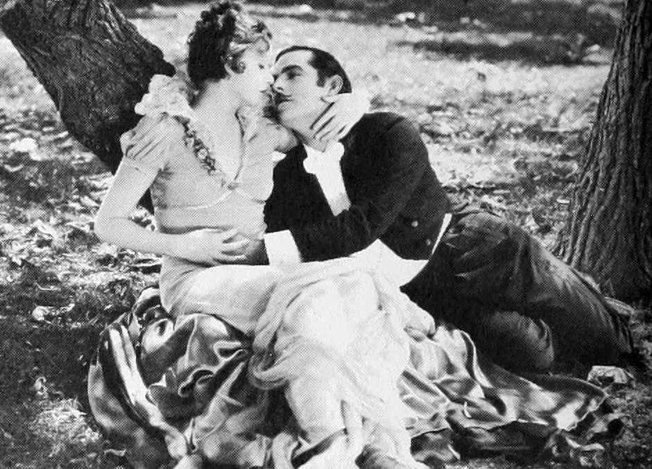 Scene from the American drama film The Temptress (1926) - Greta Garbo and Armand Kaliz.